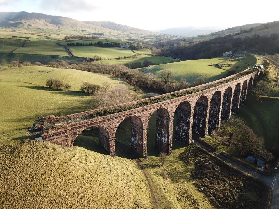 Lowgill Viaduct Wikidata has entry Q26379193 with data related to this item.